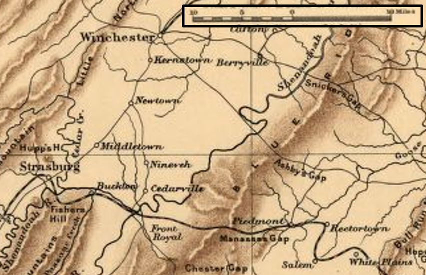 Winchester – Kernstown – Fisher’s Hill region in Virginia’s Shenandoah Valley during the American Civil War. Numerous American Civil War battles were fought in this region.